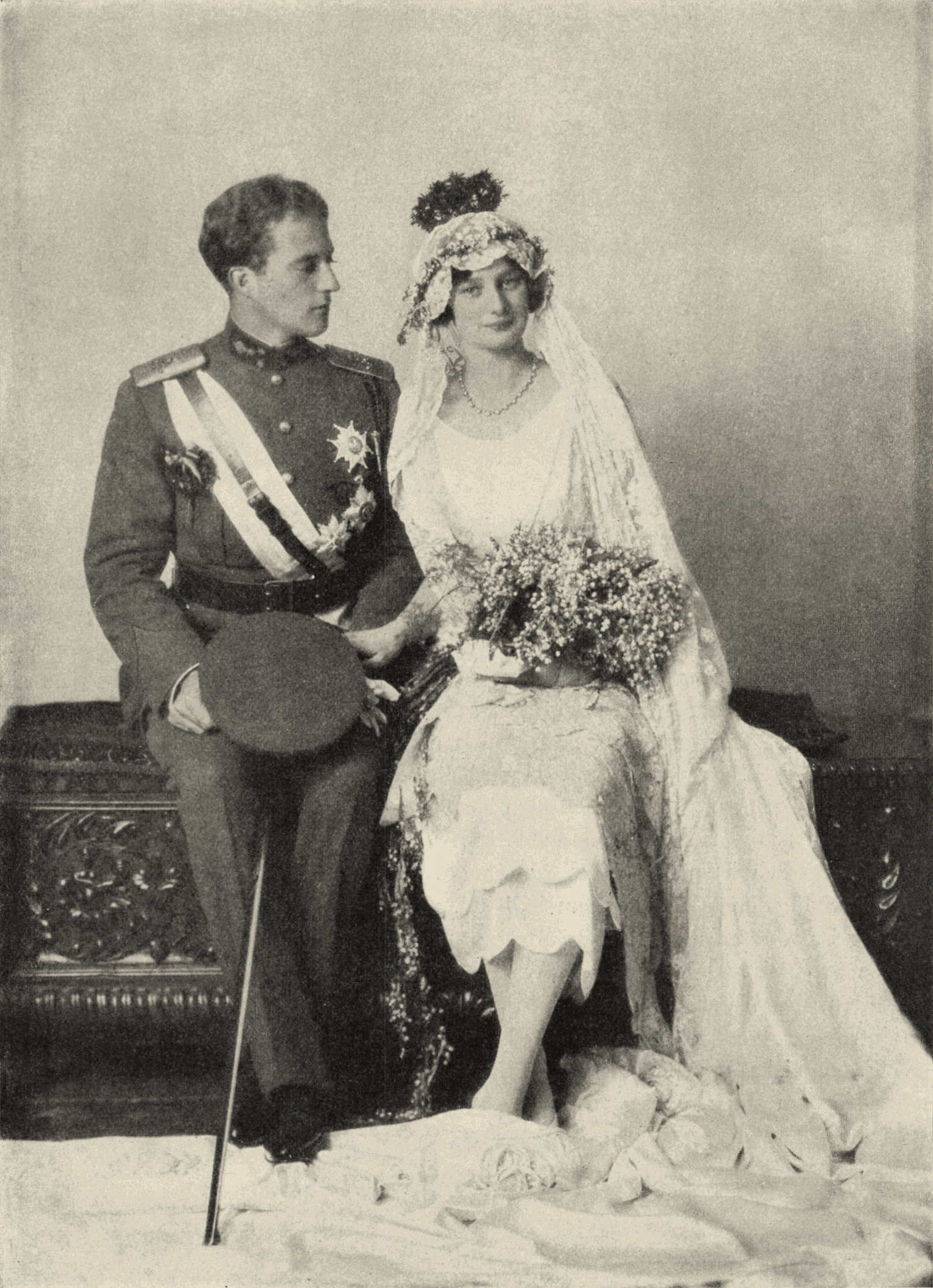 Crown Prince Leopold (III) of Belgium and Princess Astrid of Sweden on their wedding day, photographed immediately after the civil wedding ceremony in the State Hall at Stockholm Palace. Wedding officiant was Mr. Carl Lindhagen, Mayor of Stockholm.